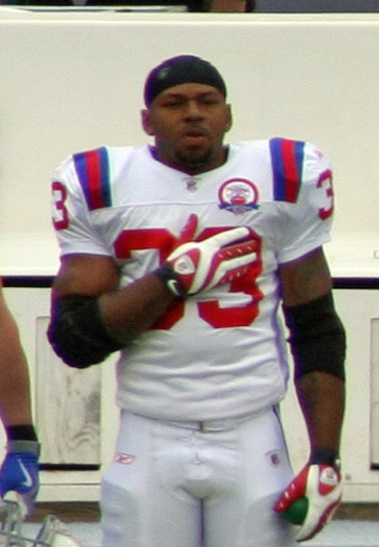 A panorama of the New England Patriots bench when they were visitors at a game in Denver at INVESCO Field at Mile High on October 11, 2009.